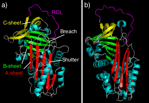 antitrypsin and antichymotrypsin, appropriately labelled